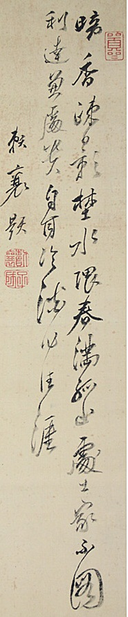 頼山陽の筆跡